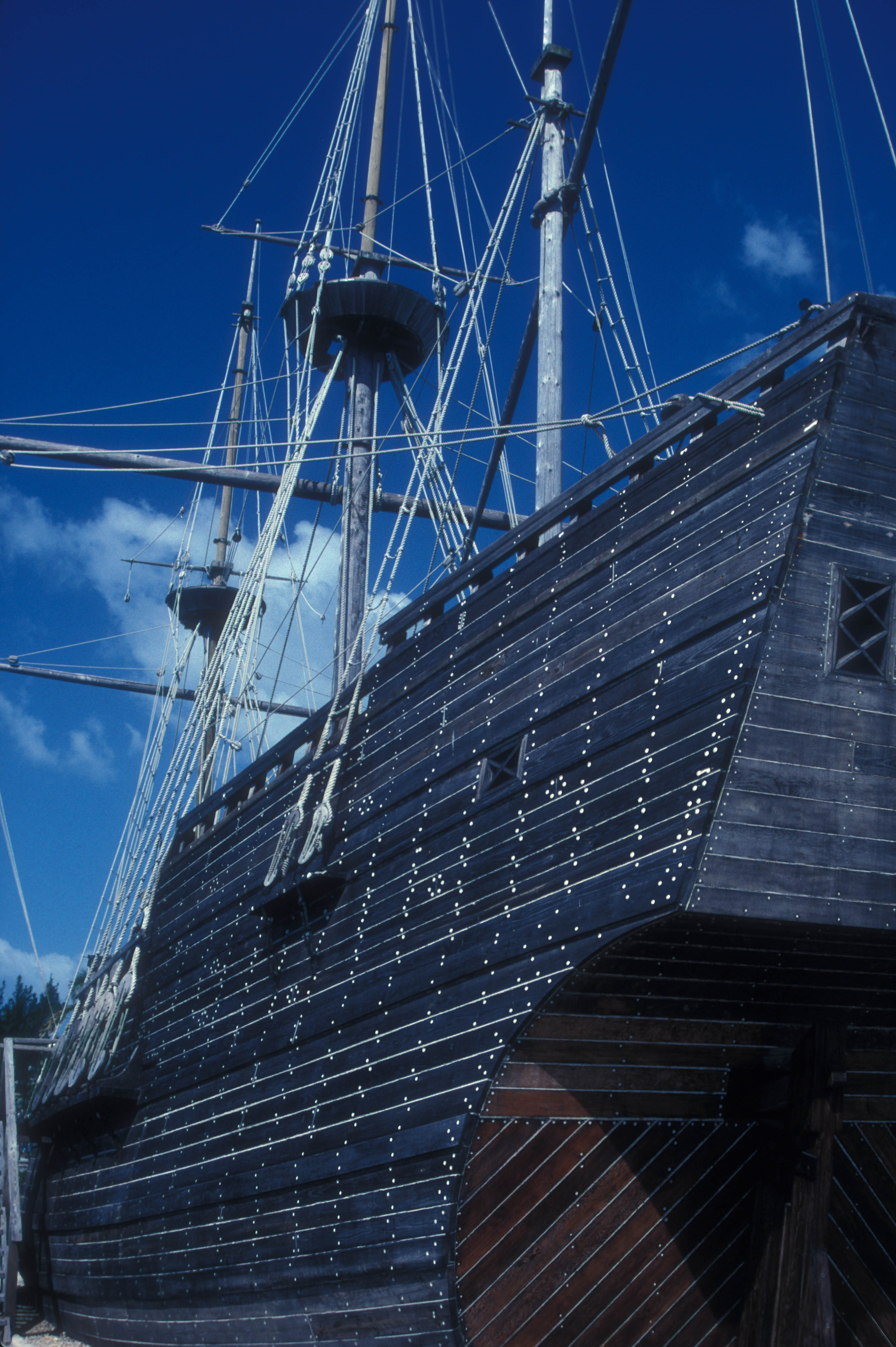 REPLICA OF THE DELIVERANCE WHICH WAS BUILT IN 1610 BY THE SHIPWRECKED SAILORS OF THE SEA VENTURE FROM REMAINS OF THAT SHIP AND FROM BERMUDA CEDAR